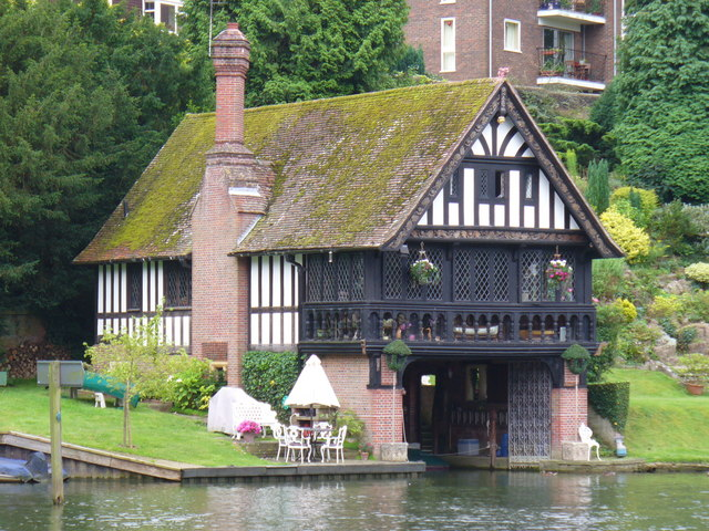 Boathouse, Goring-on-Thames Mock Tudor elegance set in private gardens on the east bank of the Thames. The steep bank behind is populated by flats and large houses.